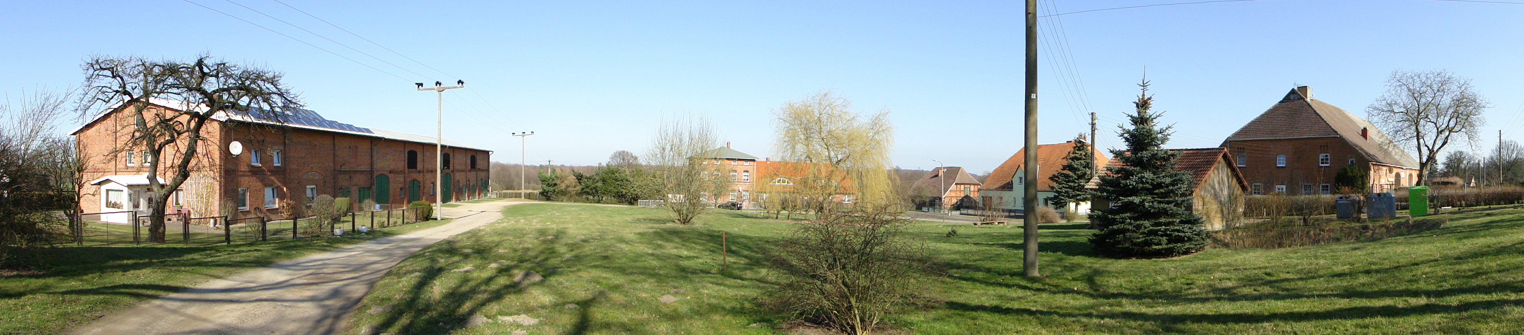 Manor in Darze, district Ludwigslust-Parchim, Mecklenburg-Vorpommern, Germany